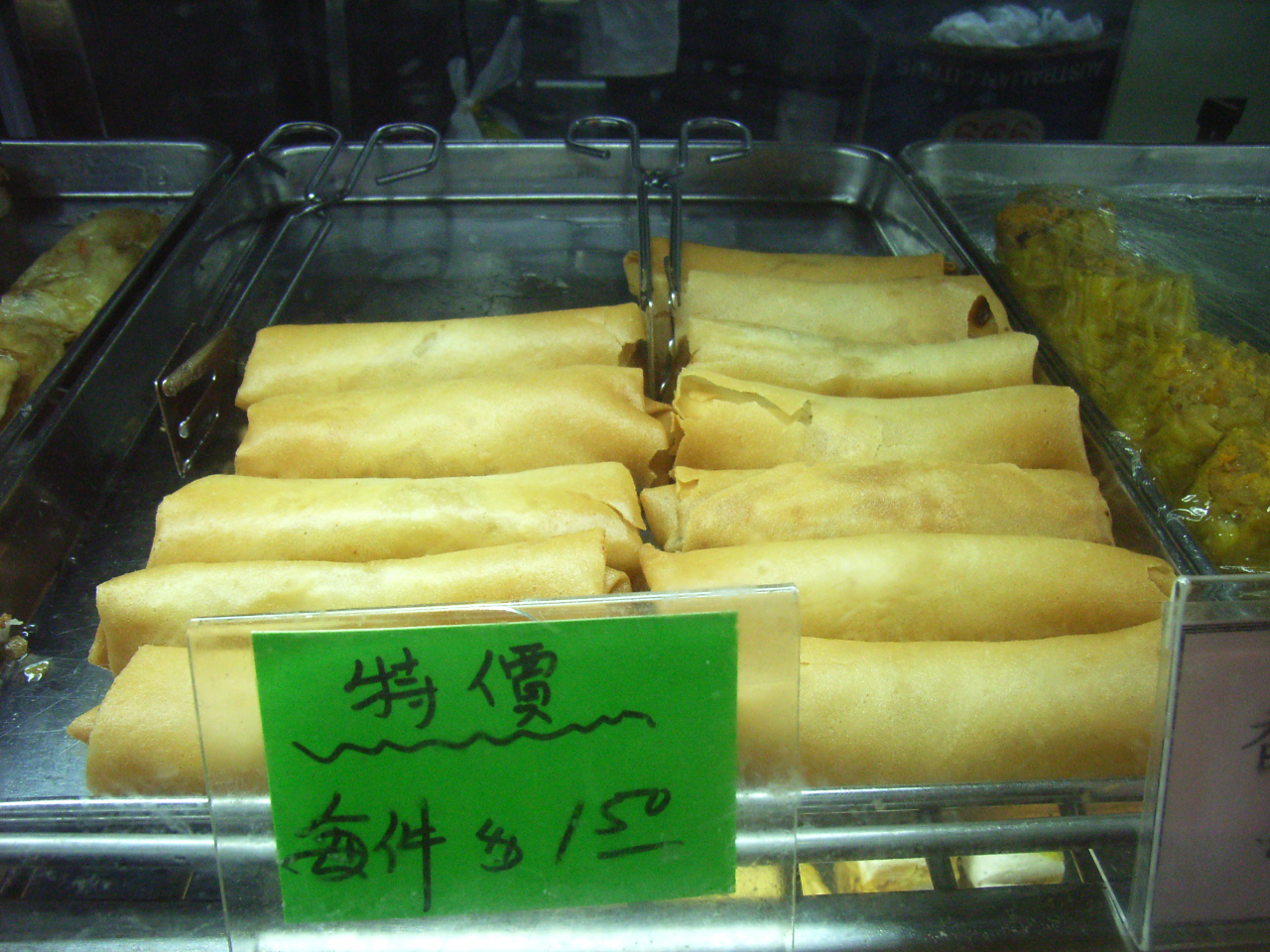 Spring rolls 春卷 Author: Rose SP Ring